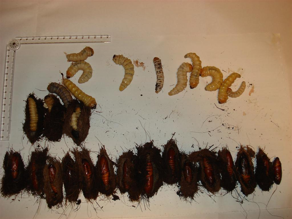 Inside a Trachycarpus fortunei